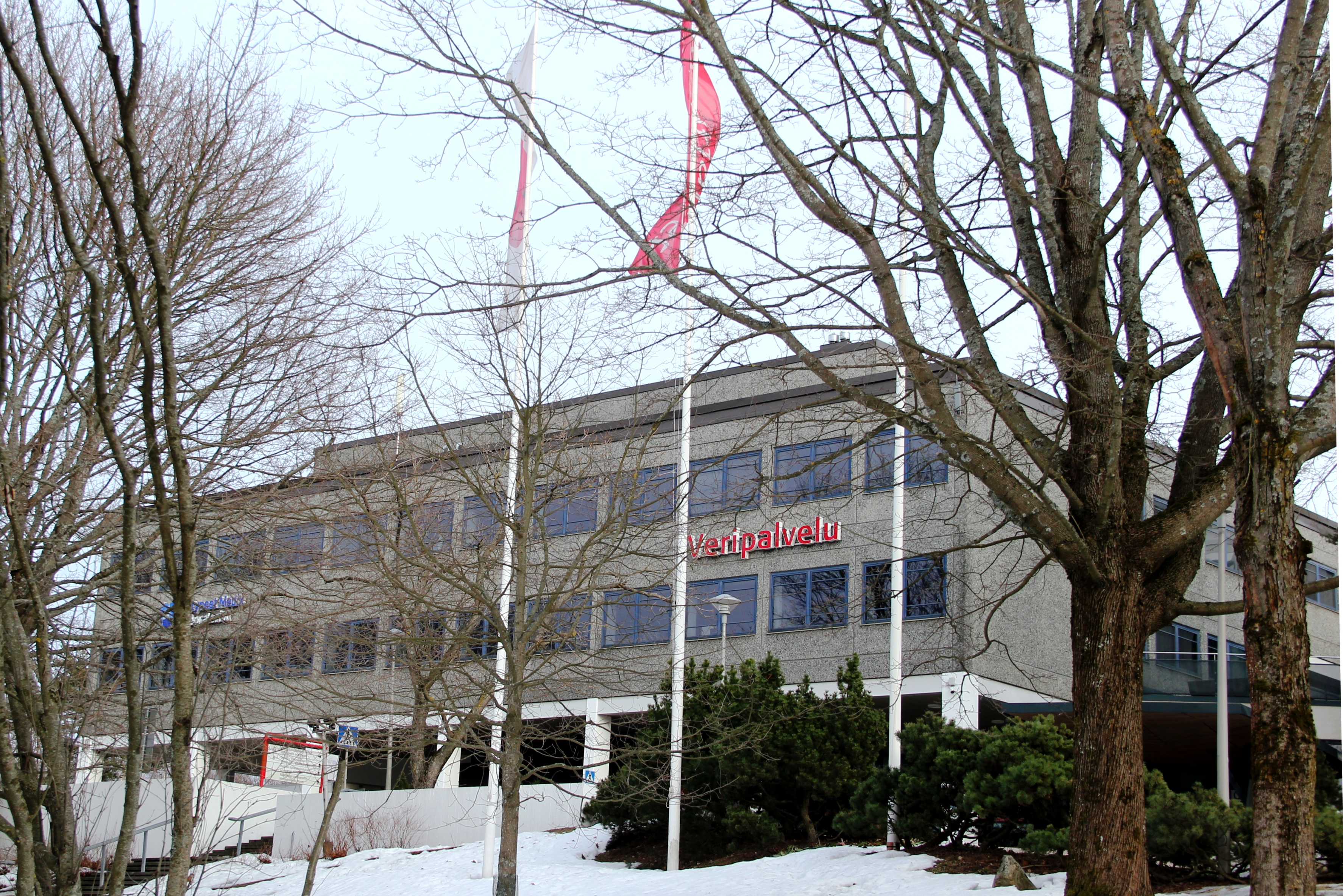 Headquarters of the Finnish Red Cross Blood Service in Helsinki, Finland.